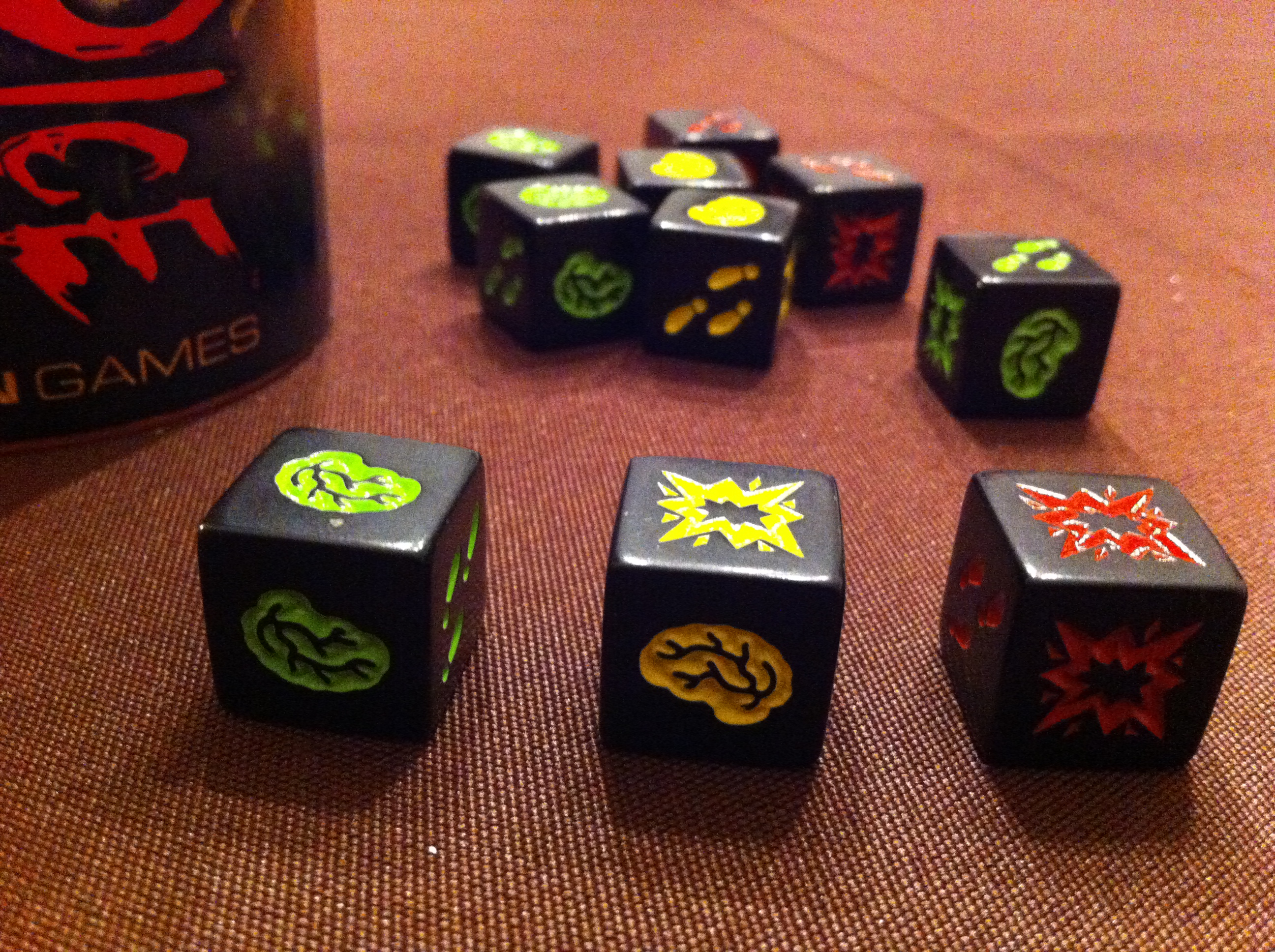 A shot of the dice from the Steve Jackson game.